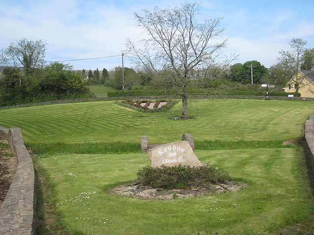 Small park at the west end of Keadue (Irish: Céideadh) is a village in County Roscommon . The name is sometimes also spelled Keadew. Keadue is the burial place of the great Irish harper, Turlough O'Carolan, and the village holds an annual O'Carolan Harp Festival and Summer School to commemorate his life and work. Keadue is a twice Overall winner of the Irish Tidy Towns Competition in 1993 and 2003, as well as numerous awards for the tidiest town in the county. This small park lies at the western end of the village; the stone commemorates the millennium.